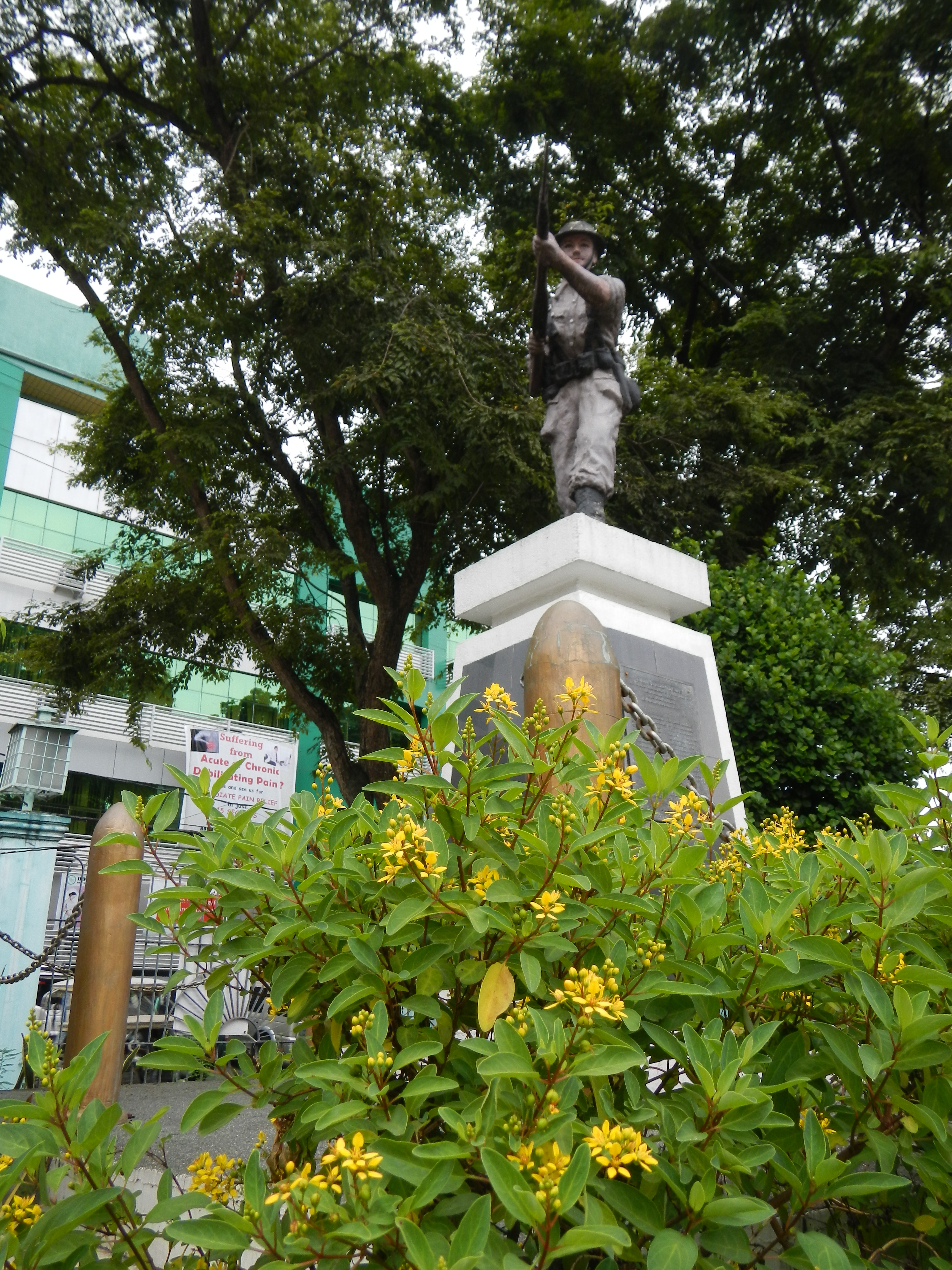 UploadWizard photos --- (general description) of (landmarks, heritage, culture, comprehensive, photography) of – Pasay City Mall & Public Market the Holy Rosary of Cabuyao Hospital PTC Building and the -- Cabuyao City Hall[1] located in Brgy. Sala, Cabuyao [2] Cabuyao City, Laguna Coordinates: 14°16'17"N 121°7'27"E homes the Cabuyao City Hall, Cabuyao City Police Station, Cabuyao City Jail and Cabuyao Fire Station. --- Cabuyao[3] (City of Cabuyao is a first class city in the western portion of Laguna, Philippines - 2010 Census, population of 248,436 inhabitants, area: 43.3 km²Website Cabuyao, Laguna, is newest city President Benigno Aquino, on May 16, 2012, signed the executive order directing the conversion of Cabuyao to a component city under Republic Act No. 10163 -[4] Coordinates: 14°15'0"N 121°6'20"E.